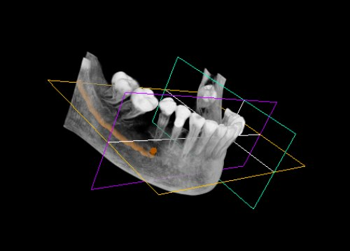 DVT or CBCT of the lower jaw with drawing of the mandibular nerv